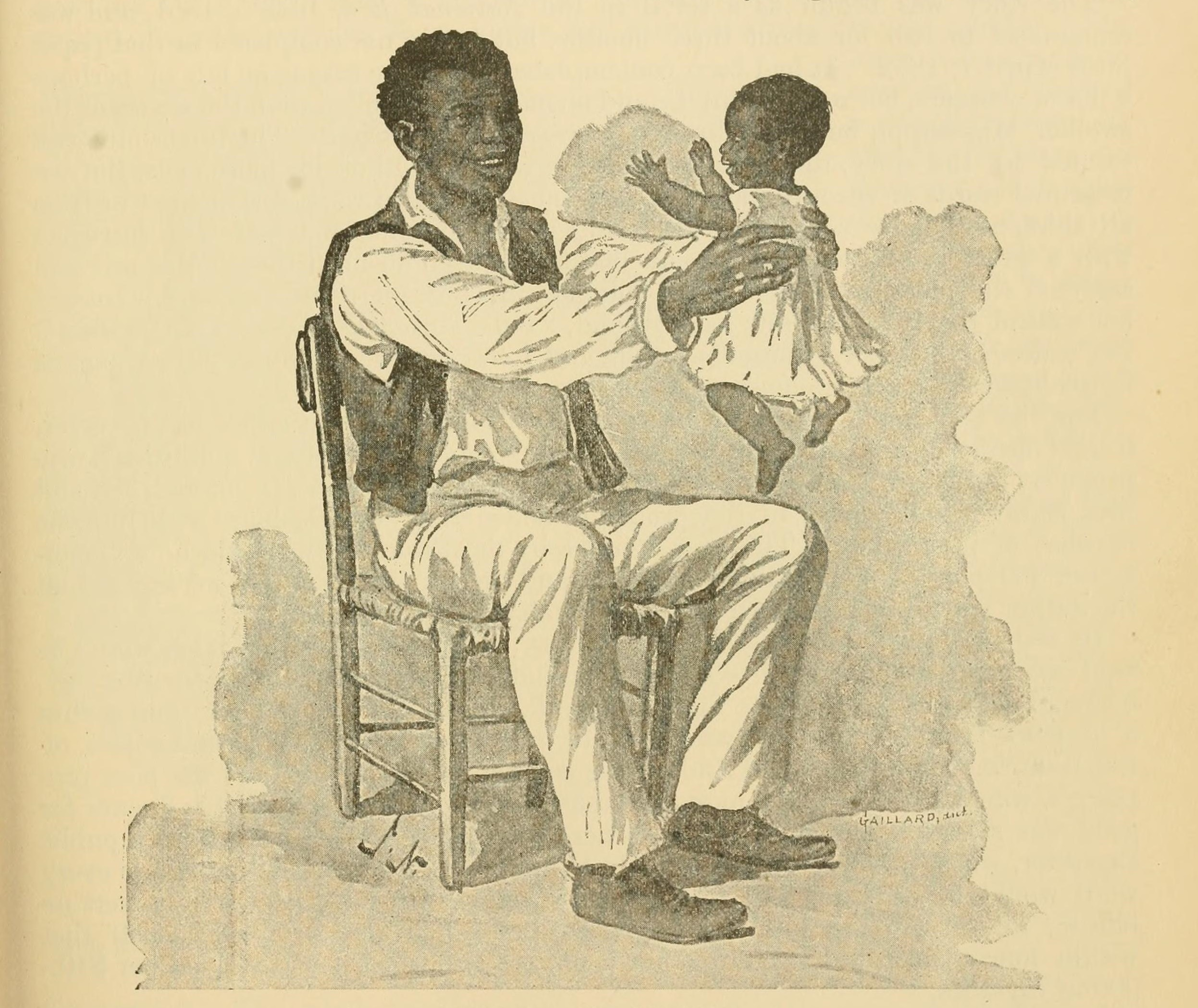 Title: Beautiful gems from American writers and the lives and portraits of our favorite authors Year: 1901 (1900s) Authors: Birdsall, William Wilfred, 1854-1909, (from old catalog) ed Jones, Rufus Matthew, 1863- (from old catalog) joint ed Subjects: American literature Publisher: Chicago, Ill., International publishing co Text Appearing Before Image: MARION HARLAND, FRANCES HODGSON BURNETT. NOTED WOMEN NOVELISTS. HELEN HUNT JACKSON HARRIET BEECHER STOWE. 219 The years from 1845 to 1850 were a time of severe trial to Mrs. Stowe. She andher husband both suffered from ill health, and the family was separated. ProfessorStowe was struggling with poverty, and endeavoring at the same time to lift theTheological Seminary out of financial difficulties. In 1849, while Professor Stowewas ill at a water-cure establishment in Vermont, their youngest child died of cholera, / Text Appearing After Image: UNCLE TOM AND HIS BABY. Aint she a peart young un? which was then rasrinof in Cincinnati. In 1850 it was decided to remove to Bruns-wick, Maine, the seat of Bowdoin College, where Professor Stowe was offered aposition. The year 1850 is memorable in the history of the conflict with slavery. It wasthe year of Clays compromise measures, as they were called, whicli sought to satisfythe North by the admission of California as a free State, and to propitiate the Southby the notorious Fug-itive Slave Law. The slave power was at its height, and 220 HARRIET BEECHER STOWE. seemed to hold all things under its feet; yet in truth it had entered upon the laststage of its existence, and the forces were fast gathering for its final overthrow.Professor Cairnes and others said truly, The Fugitive Slave Law has been tothe slave power a questionable gain. Among its first fruits was Uncle TomsCabin. The story was begun as a serial in the National Era, June 5, 1851, and wasannounced to run for about three